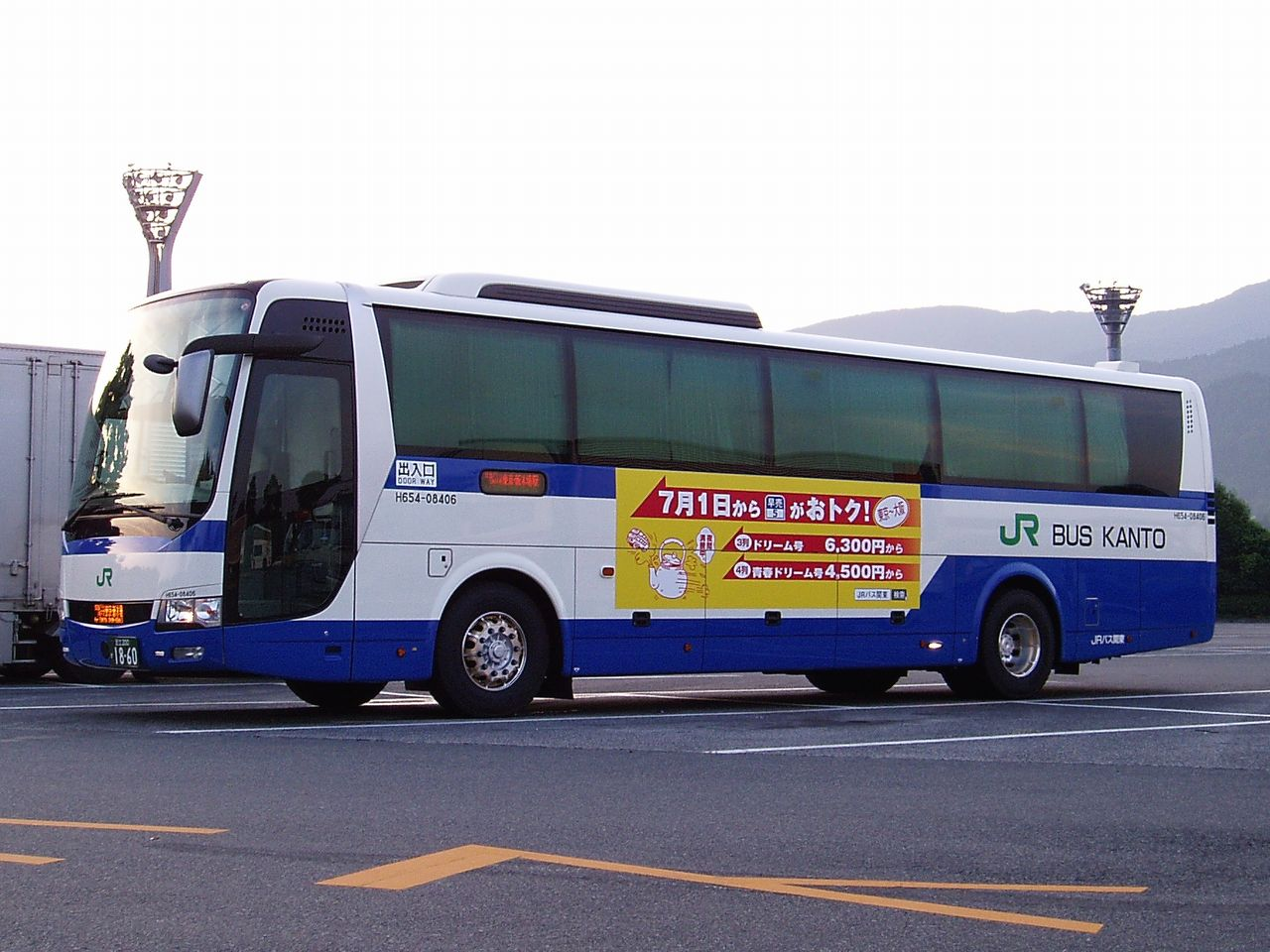 JR Bus Kanto H654-08406 "Seishun Dream Osaka" Mitsubishi BKG-MS96JP at Ashigara Service Area